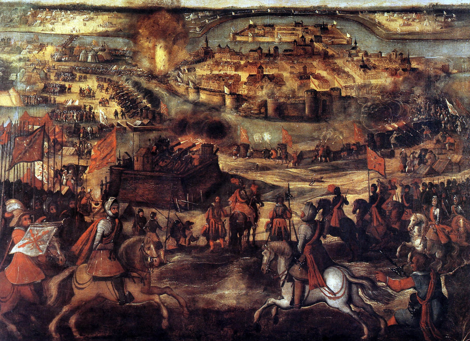 The Siege of Maastricht (1579) by an anonymous painter. Late 16th c.(?). Collection: Royal Palace of Aranjuez, Spain.